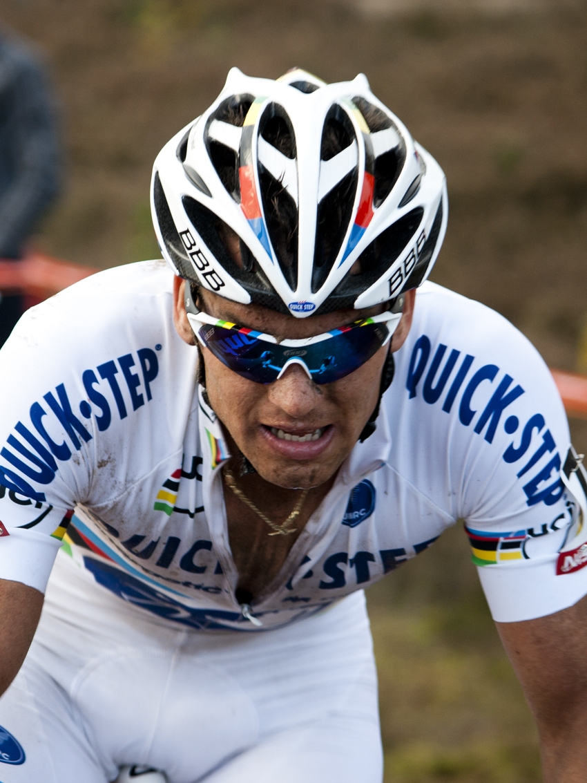 Zdenek Stybar at Superprestige Zonhoven 30/10/2011